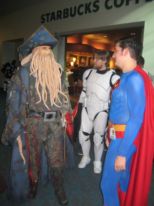 Davy Jones, Obi-Wan in clone armor, and Superman are at a Starbucks...